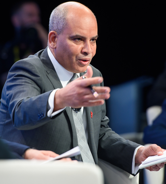 Abderrahim Foukara, Al Jazeera Washington DC Bureau Chief, moderates plenary session “Rebuilding the Middle East: From Civil War to Civil Society.”